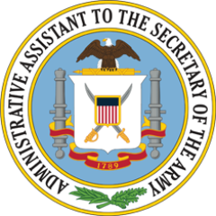 This is the official seal of the Office of the Administrative Assistant to the Secretary of the Army.